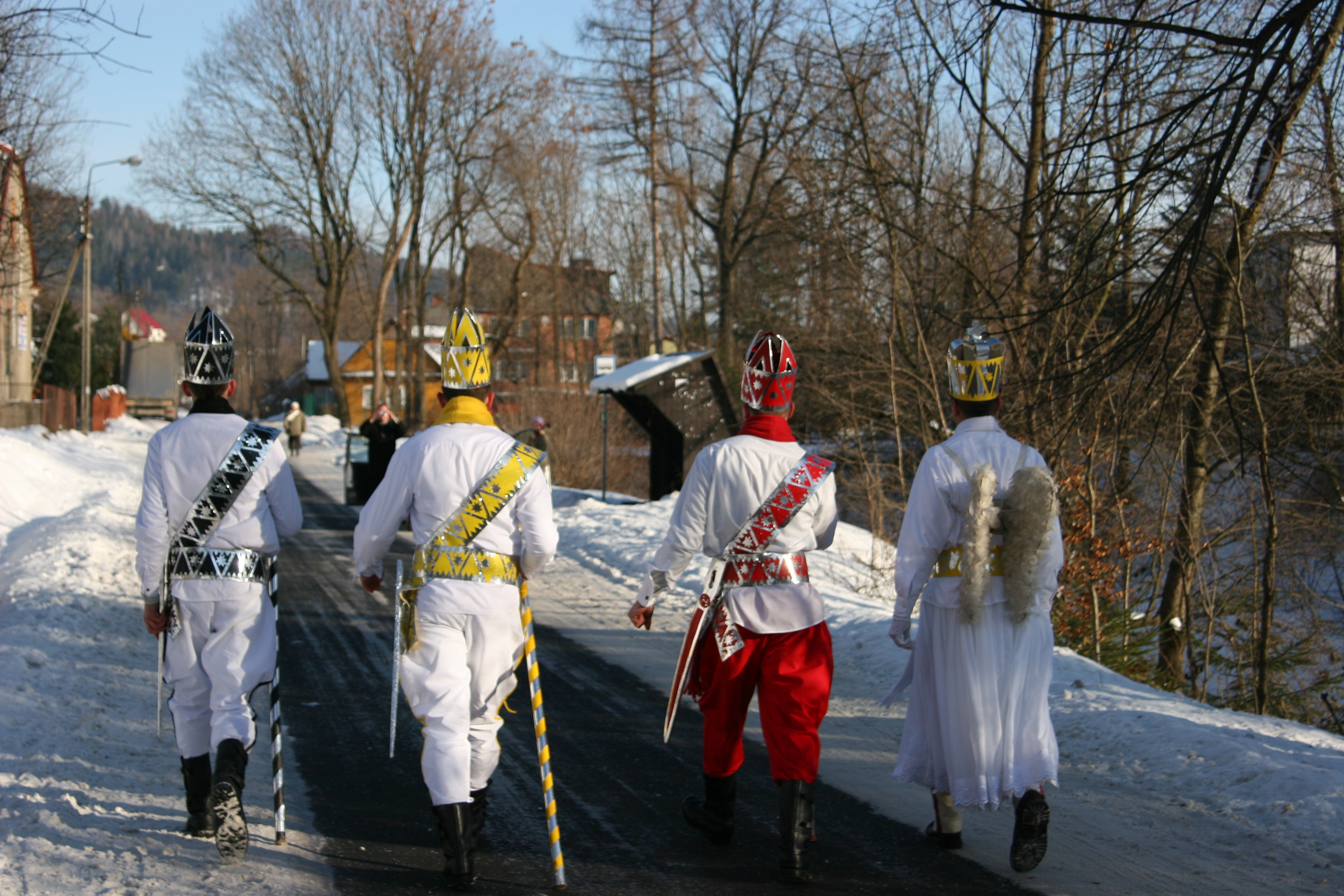 Mummers on Epiphany Day in Sopotnia Mała, Poland in 2011.